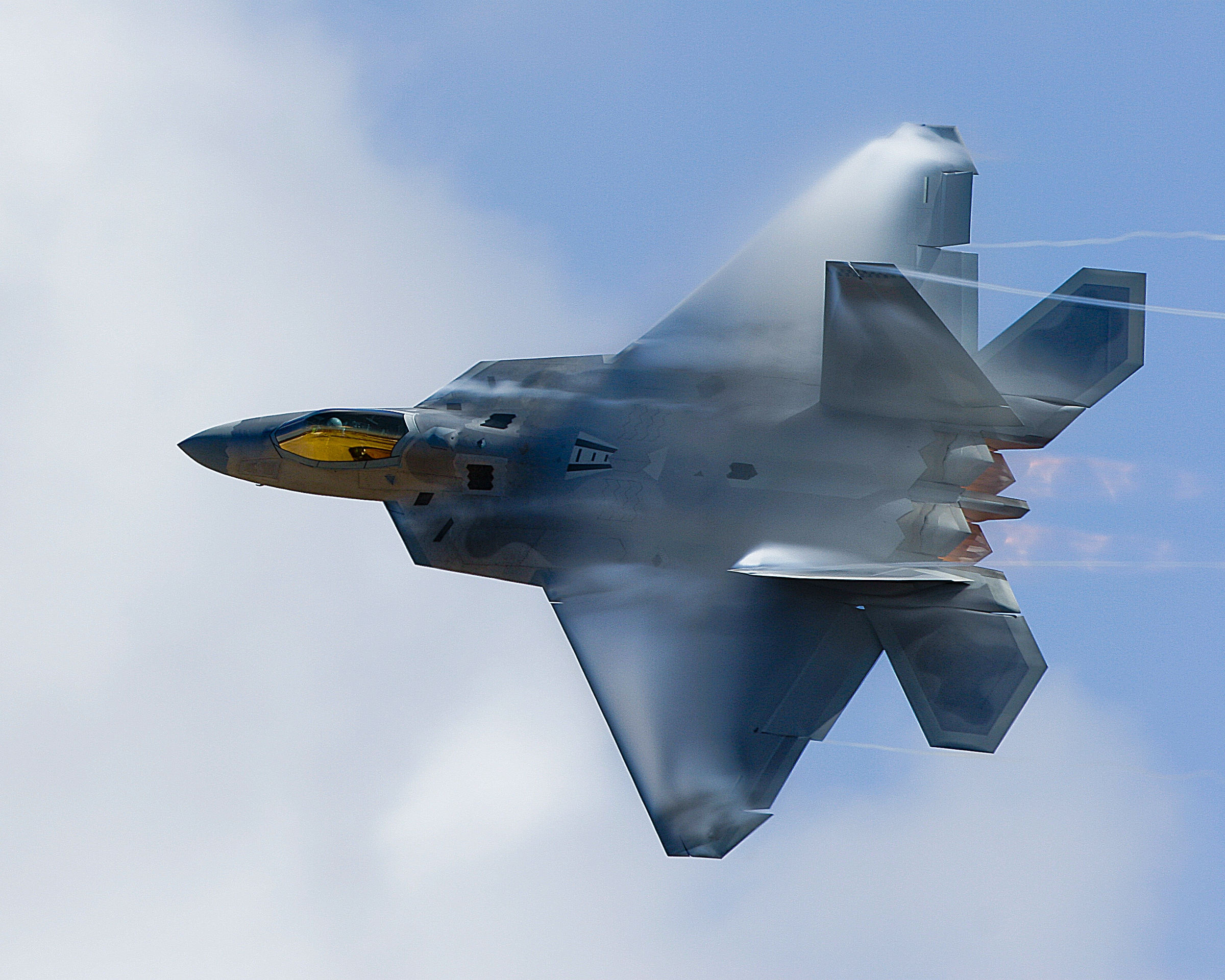 An F-22 Raptor aircraft performs a high-speed bank at the Marine Corps Community Services-sponsored annual air show Oct. 3, 2008, at Marine Corps Air Station Miramar, San Diego, Calif.